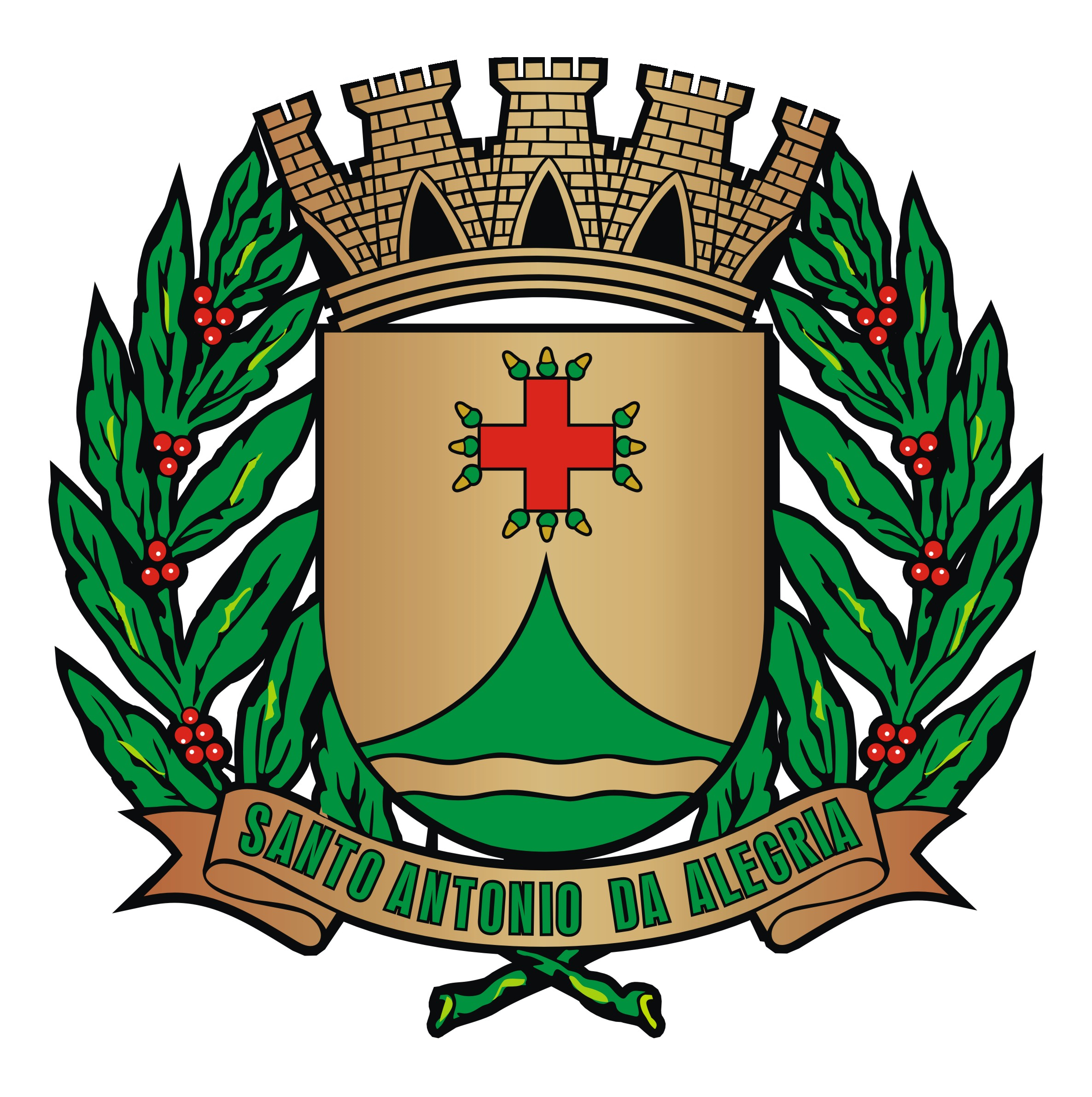 Coat of Arms of the city of Santo Antônio da Alegria, São Paulo state, Brazil. Emerson This work is in the public domain in Brazil for one of the following reasons: It is a work published or commissioned by a Brazilian government (federal, state, or municipal) prior to 1983.(Law 3071/1916, art. 662; Law 5988/1973, art. 46; Law 9610/1998, art. 115) It is the text of a treaty, convention, law, decree, regulation, judicial decision, or other official enactment.(Law 9610/1998, art. 8)